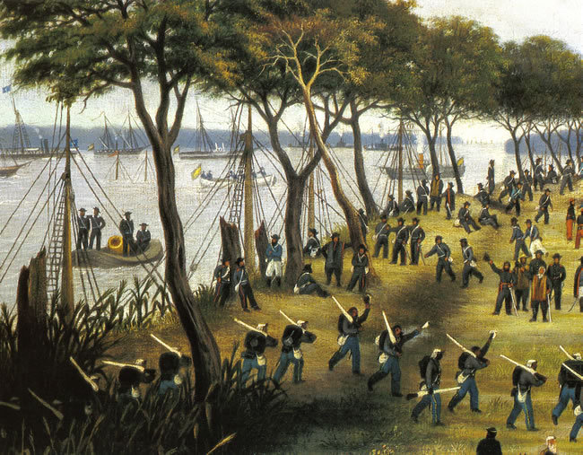 Brazilian troops landed in Curuzú designed to attack the fort of the same name